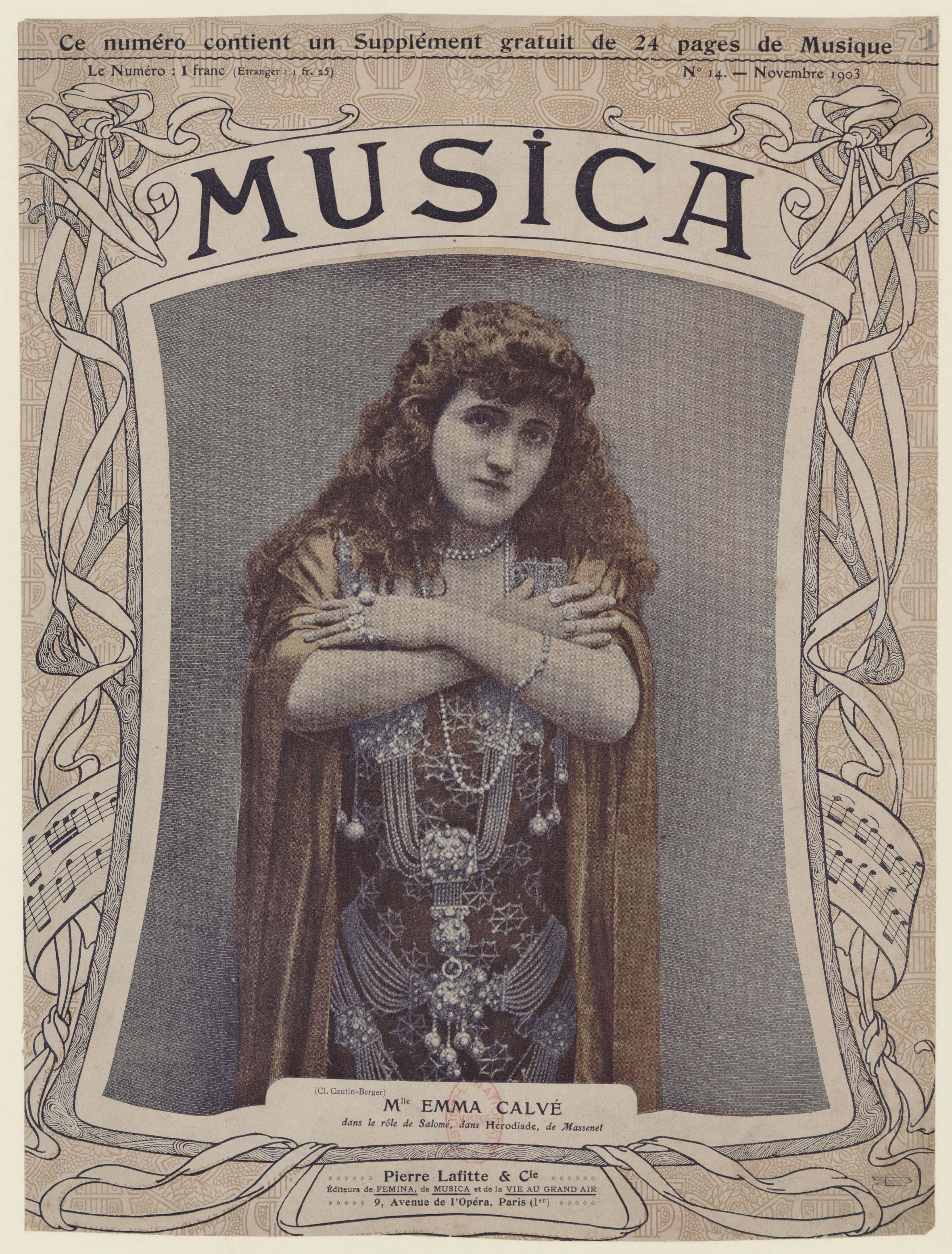 French opera singer Emma Calvé (1858-1942)